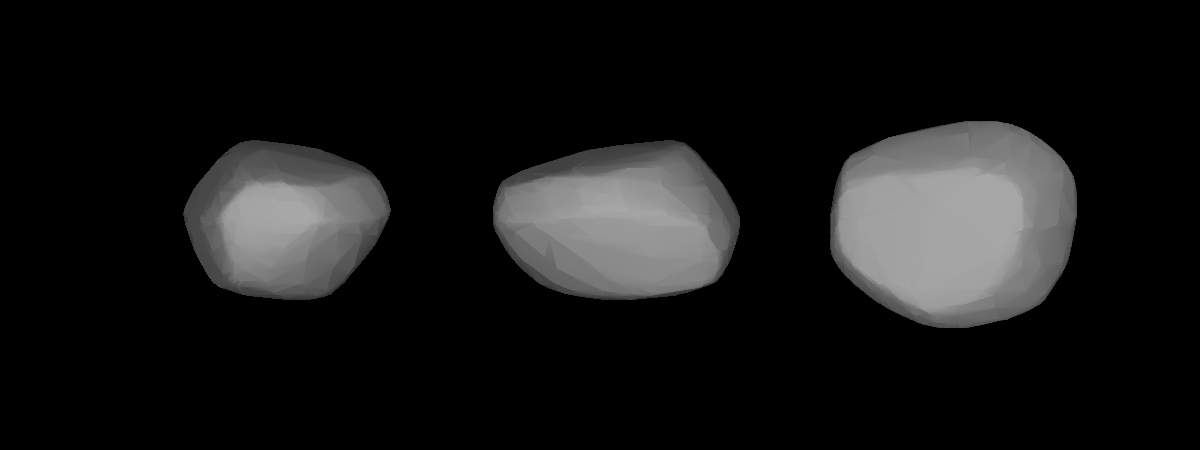 A three-dimensional model of 417 Suevia that was computed using light curve inversion techniques.